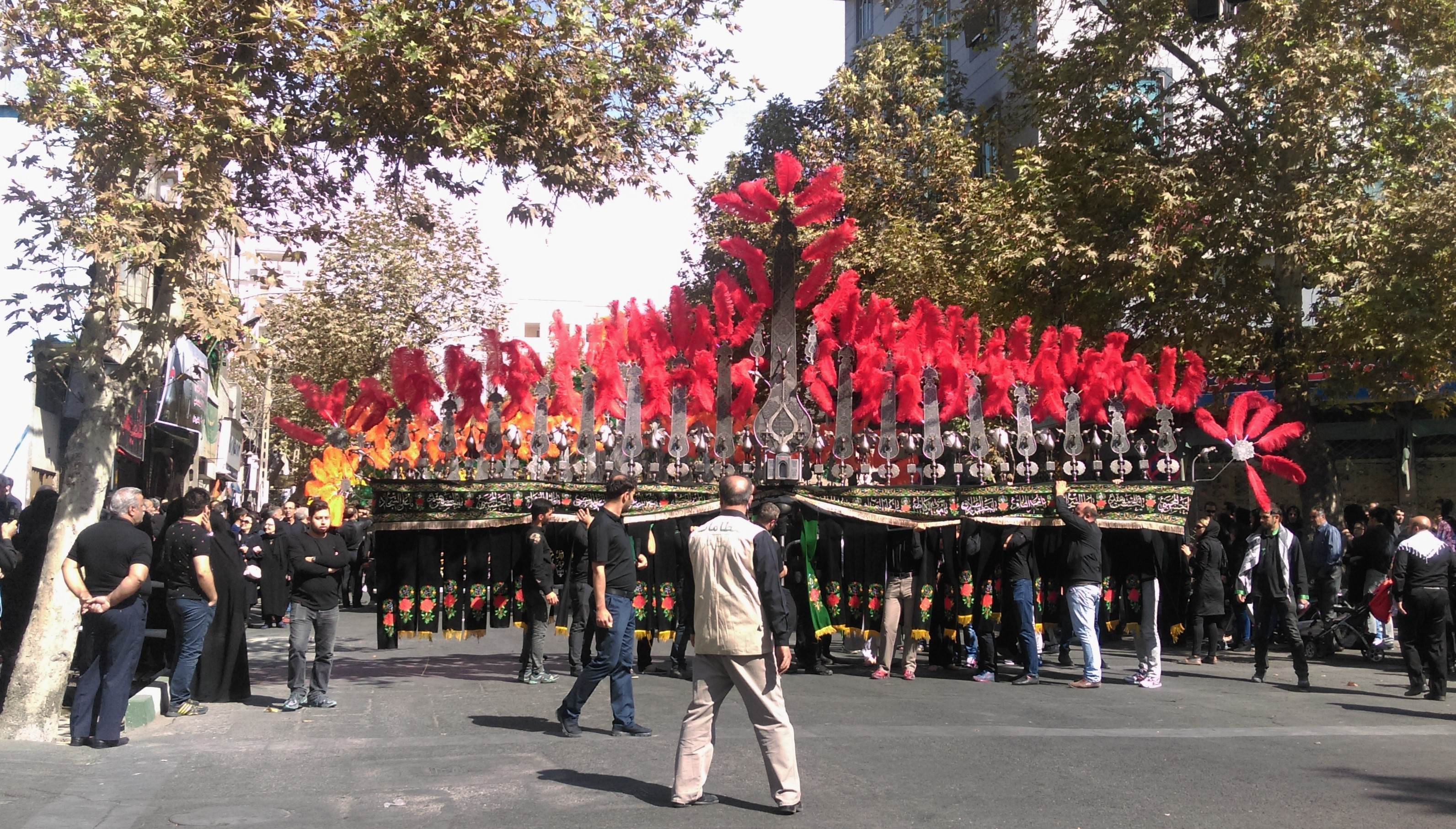 Moharram commemoration in Tehran, Iran.